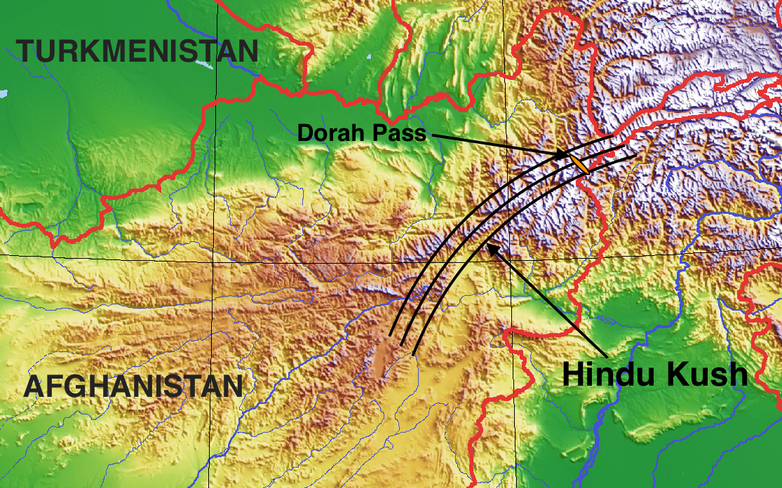 Hindu Kush range with captions, with Dorah Pass